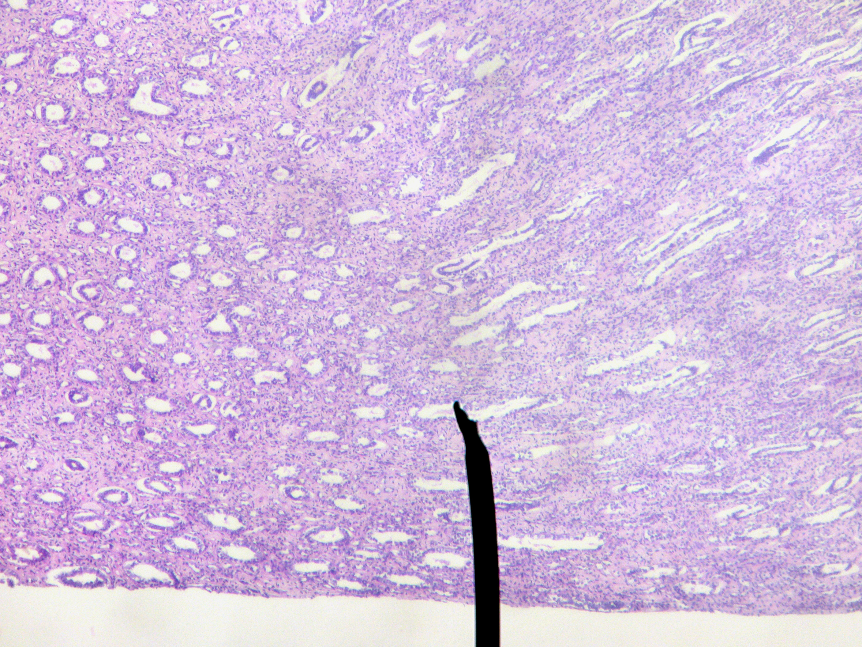 Author' own picture. Human Kidney (Medulla). Digital camera shot through a microscope.